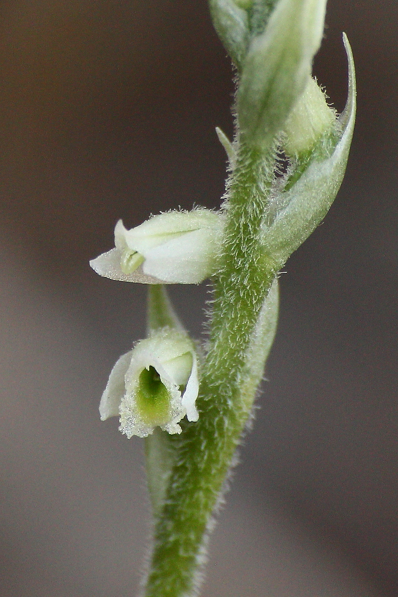 Orchid Spiranthes spiralis, common name: Autumn Lady's Tresses